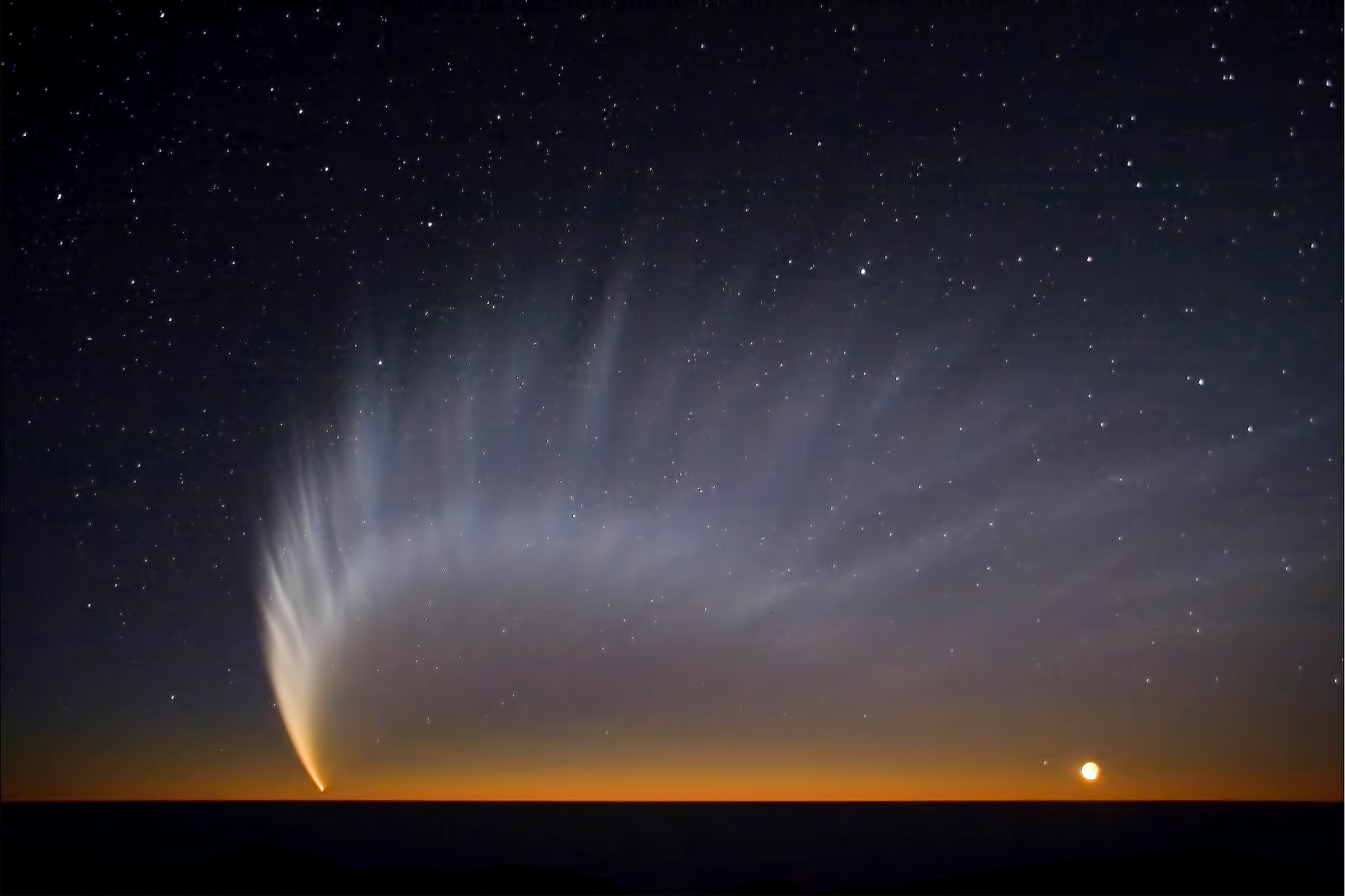 Image of the striking Comet McNaught over the Pacific ocean as viewed from the ESO Paranal Observatory.